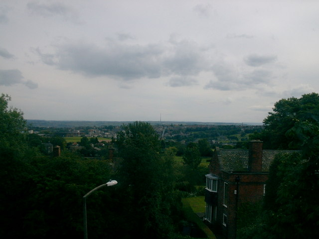 Upper Batley This view of Upper Batley includes Emley Moor TV mast away in the distance. Upper Batley is much more upmarket than Batley. The houses are bigger and in many cases were the homes of turn of the century mill owners who chose to live higher than the smog of their own mills